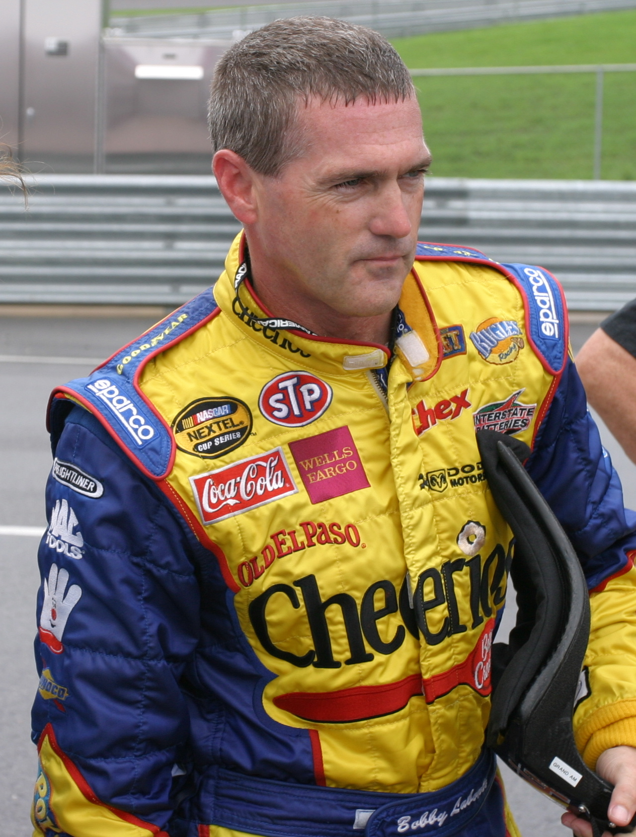 former NASCAR champion Bobby Labonte in 2006